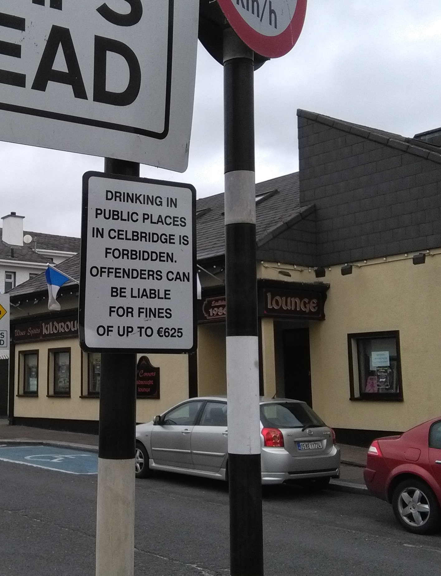 Anti-public drinking sign in Celbridge, Ireland